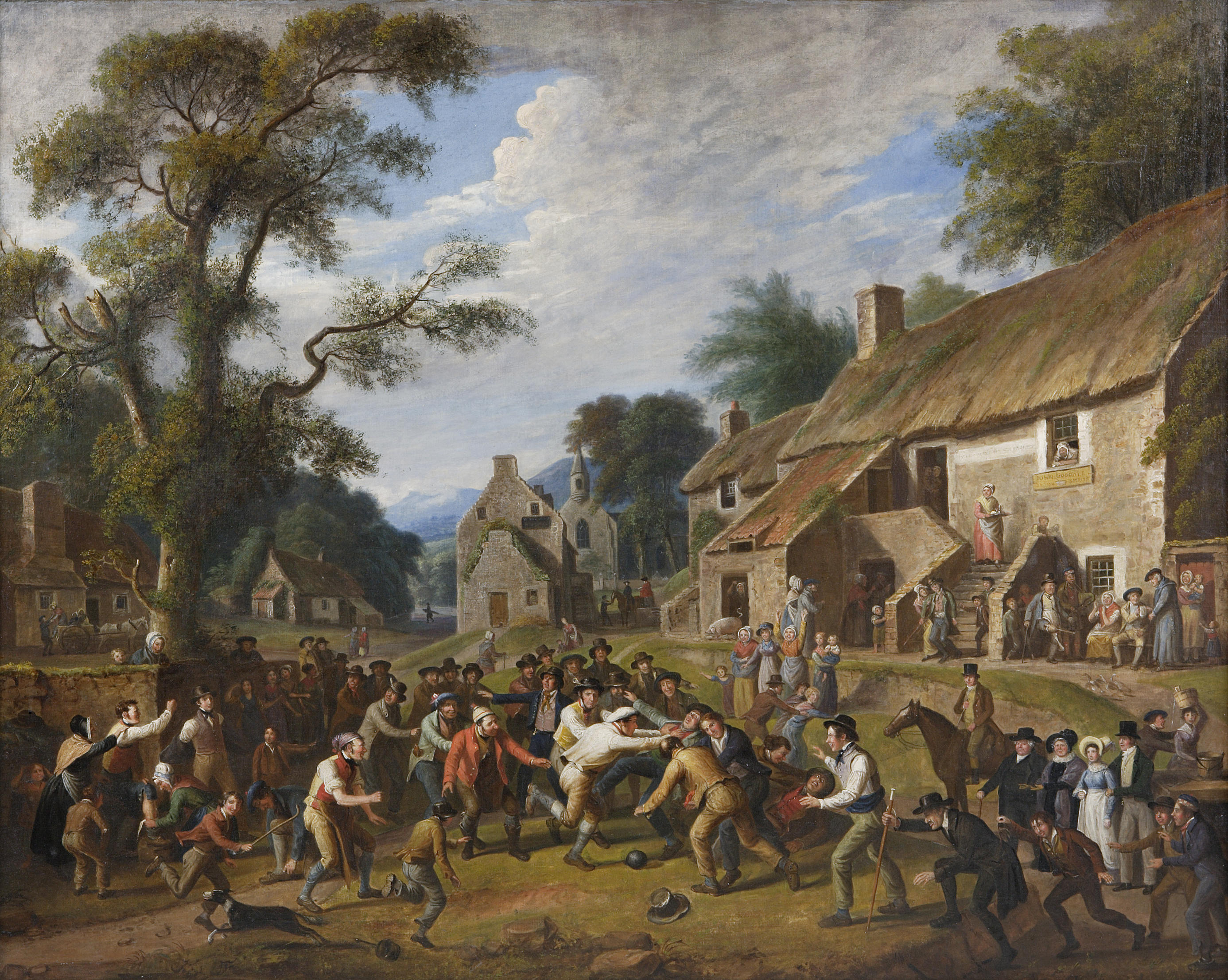 The foot-ball play by Alexander Carse maybe 1830